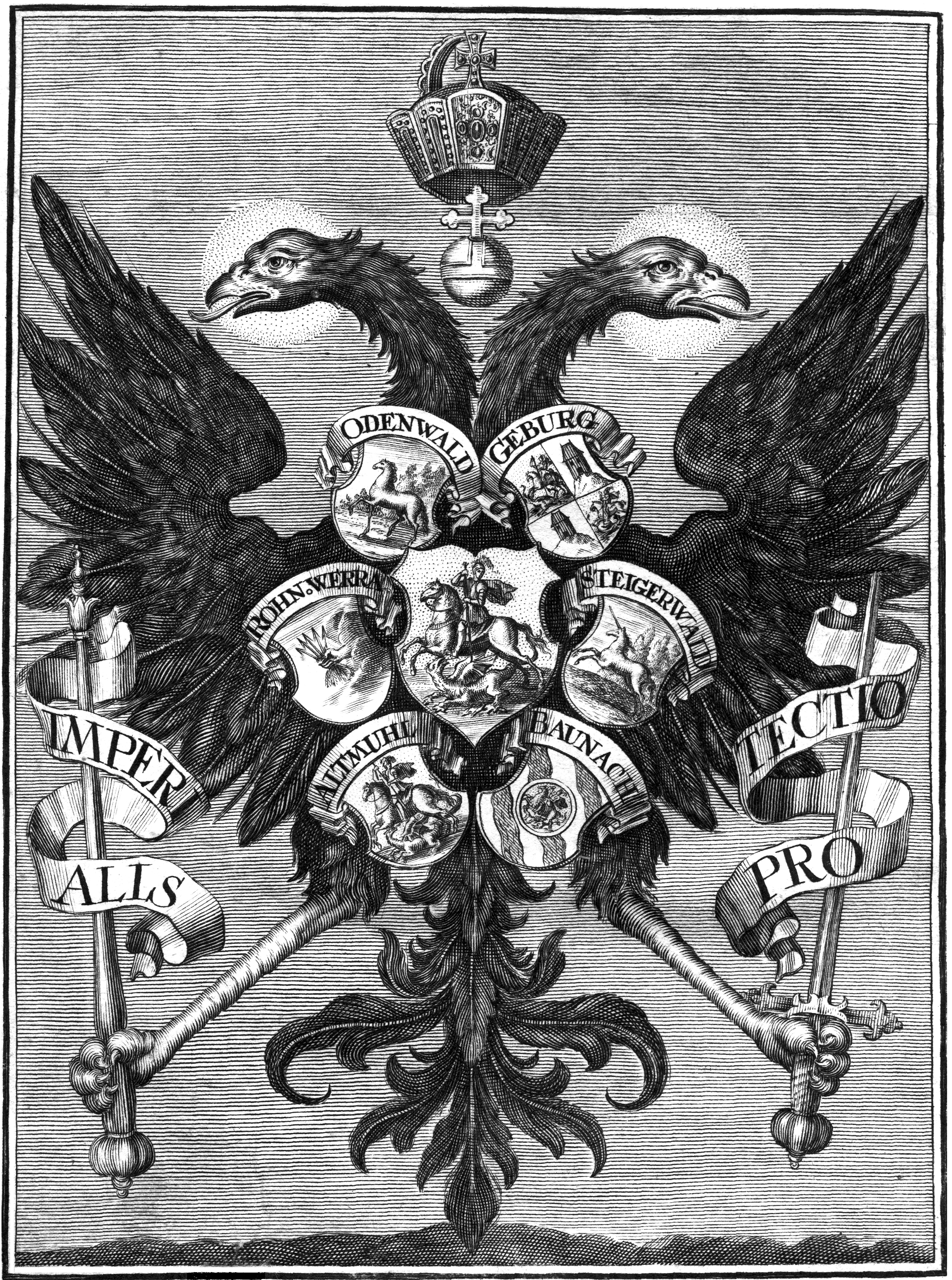 first print from book